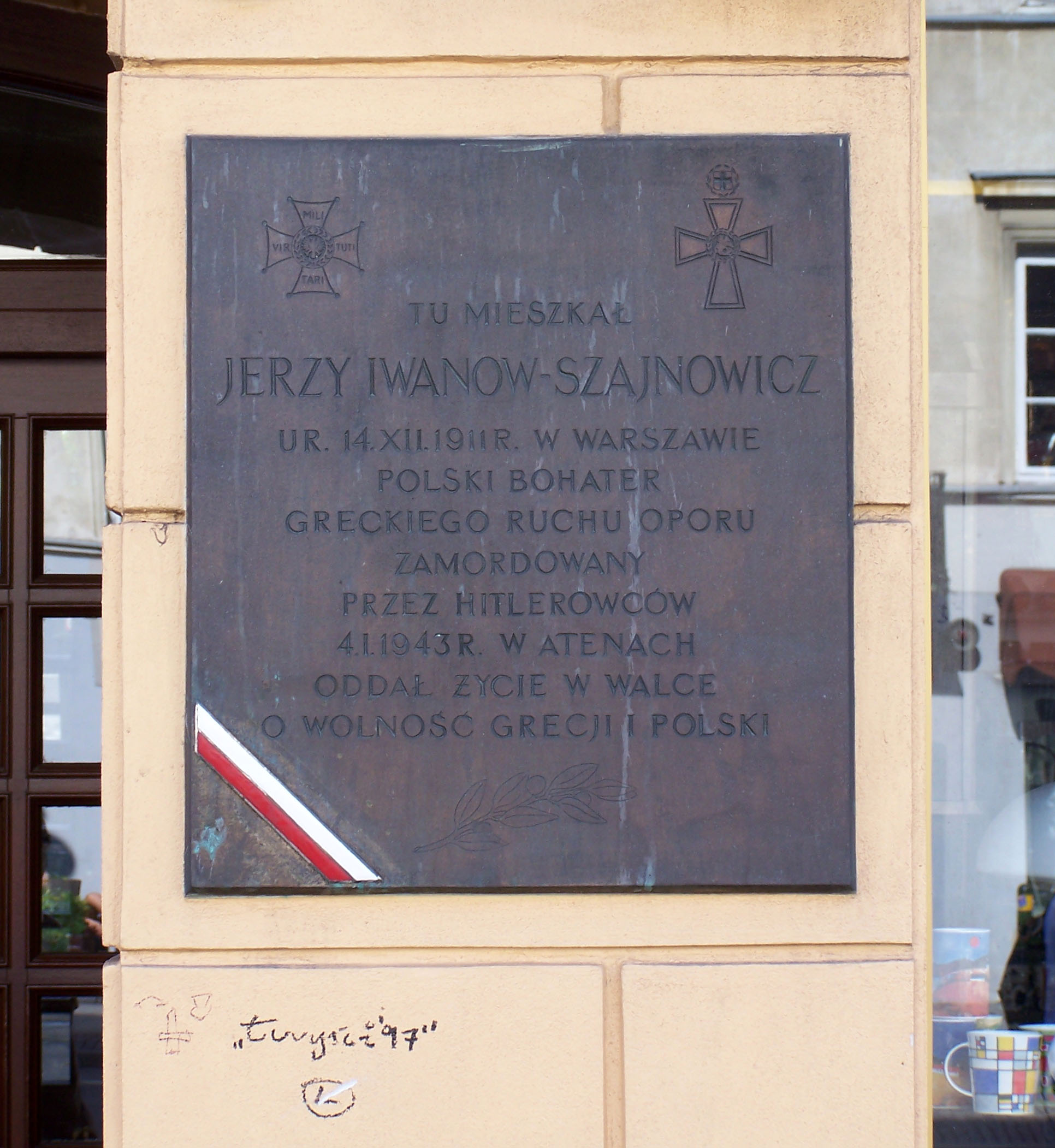 Memorial plaque to Jerzy Iwanow-Szajnowicz, Polish and Greek World War II resistance hero, at the house where he lived in Warsaw, Poland